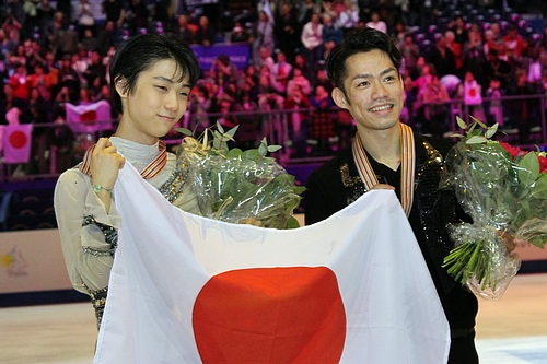 Daisuke Takahashi and Yuzuru Hanyu at the 2012 World Championships.